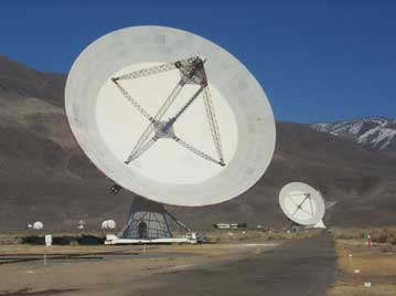 Photo of antenna 1, one of the 27-m antennas of the Owens Valley Solar Array